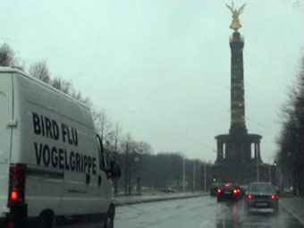 A photo that I took of the Cagol's Van in Berlin, part of the project Bird Flu / Vogelgrippe